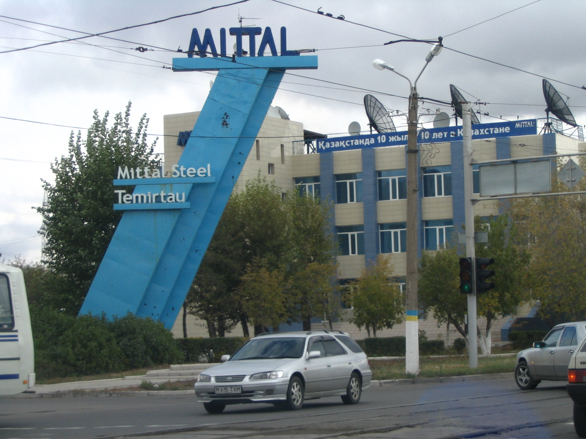 Mittal Steel in Temirtau (Kazakhstan).